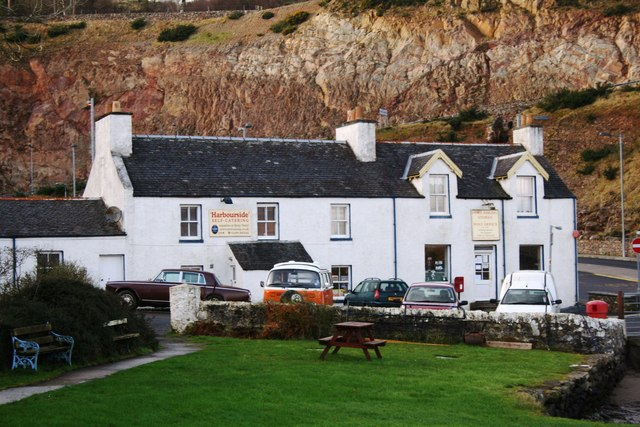 Port Askaig Stores The village stores and post office combined at Port Askaig.